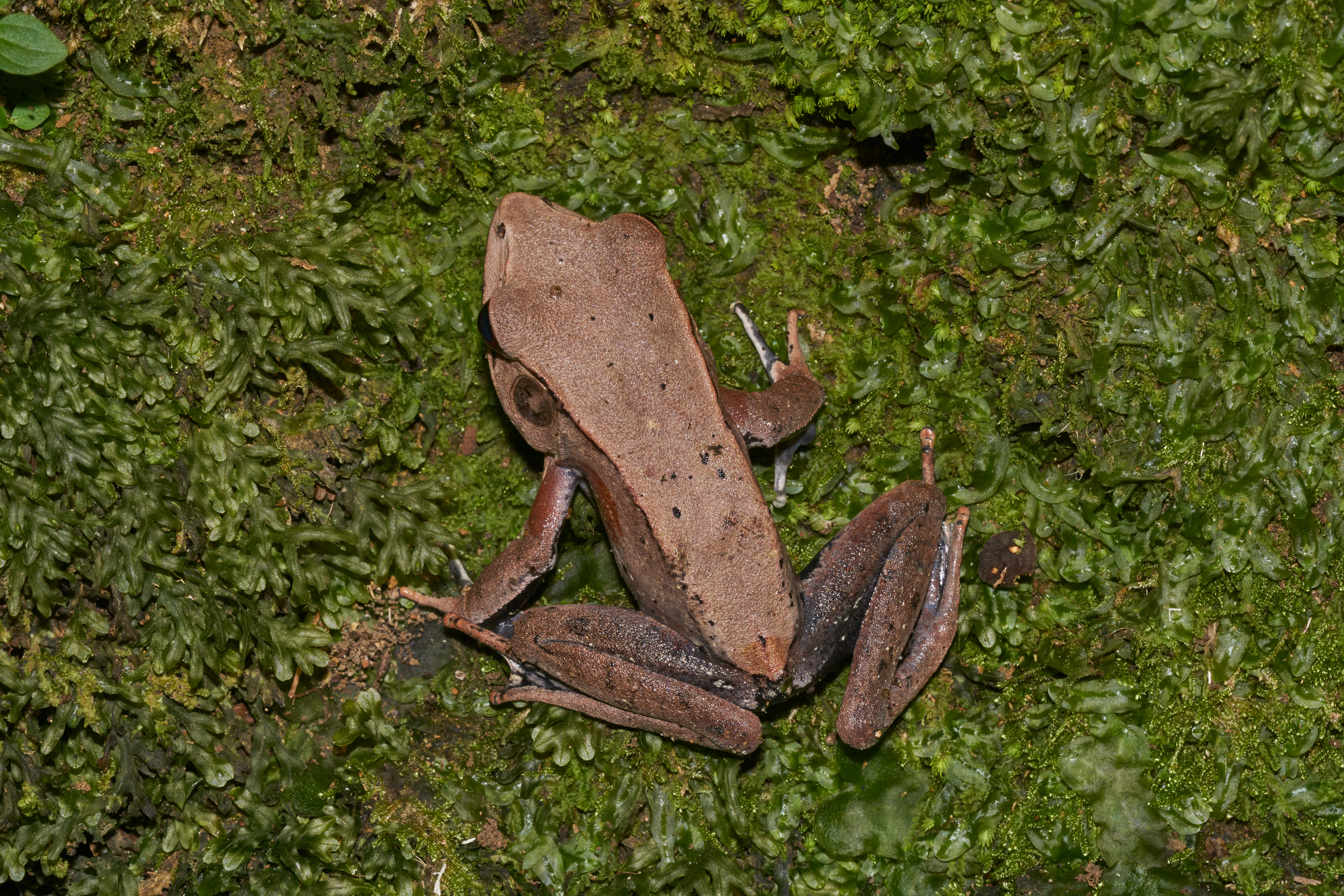 The bicolored frog or Malabar frog (Clinotarsus curtipes) is a species of frog found in the Western Ghats of India.